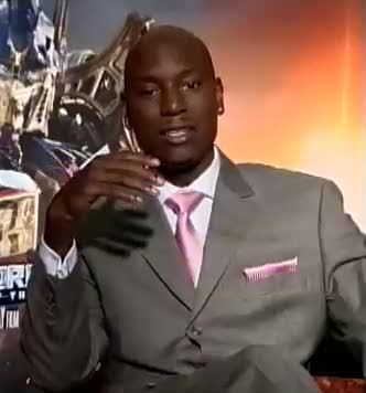 Tyrese Gibson speaks about working with the military on Transformers: Revenge of the Fallen. Screenshot taken from Army Today online video.